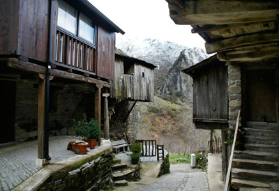 Calle típica en Peñalba de Santiago